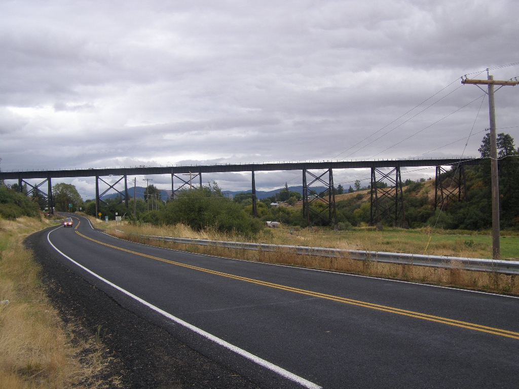 Washington State Route 27 southbound passing under the former w: Chicago, Milwaukee, St. Paul and Pacific Railroad|Chicago, Milwaukee, St. Paul and Pacific Railroad trestle now carrying the John Wayne Pioneer Trail north of Tekoa.